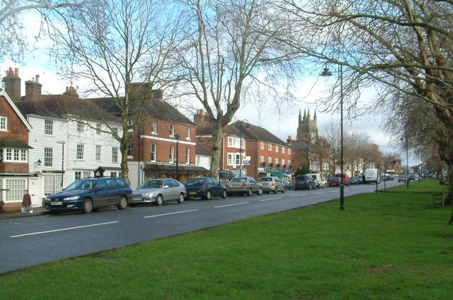 High Street, Tenterden